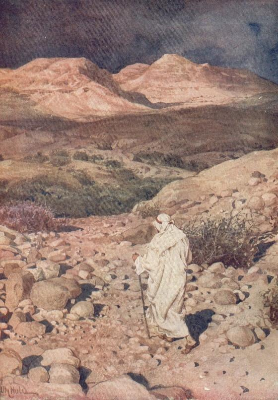 Temptation of Jesus in desert. HOLE, WILLIAM: The Life of Jesus of Nazareth. Eighty Pictures.